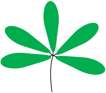 palmately compound leaf 掌狀複葉 diagram